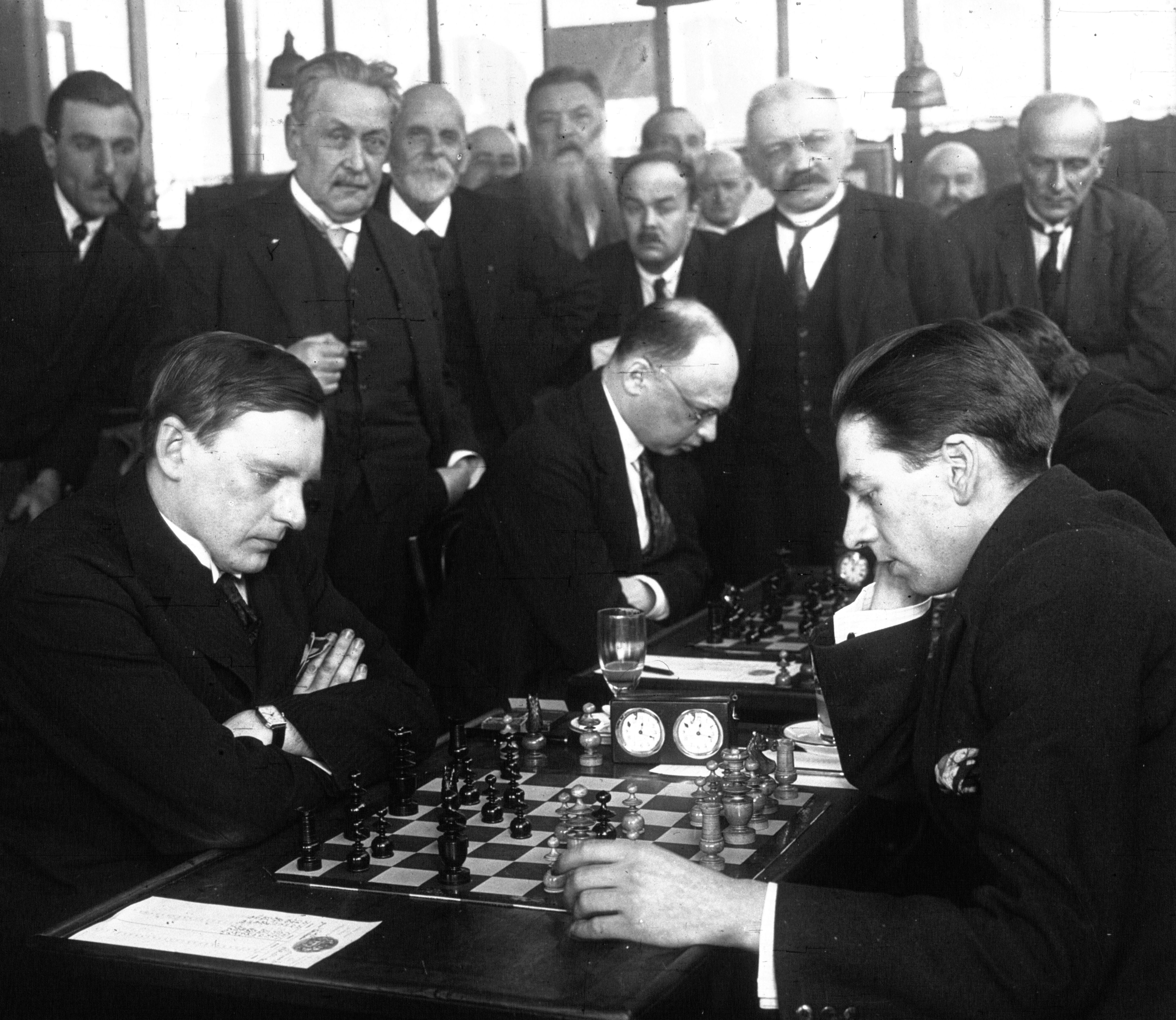 Left to right: Alexander Alekhine (1892-1946) and Edgard Colle (1897-1932) at a chess tournament in 1925.